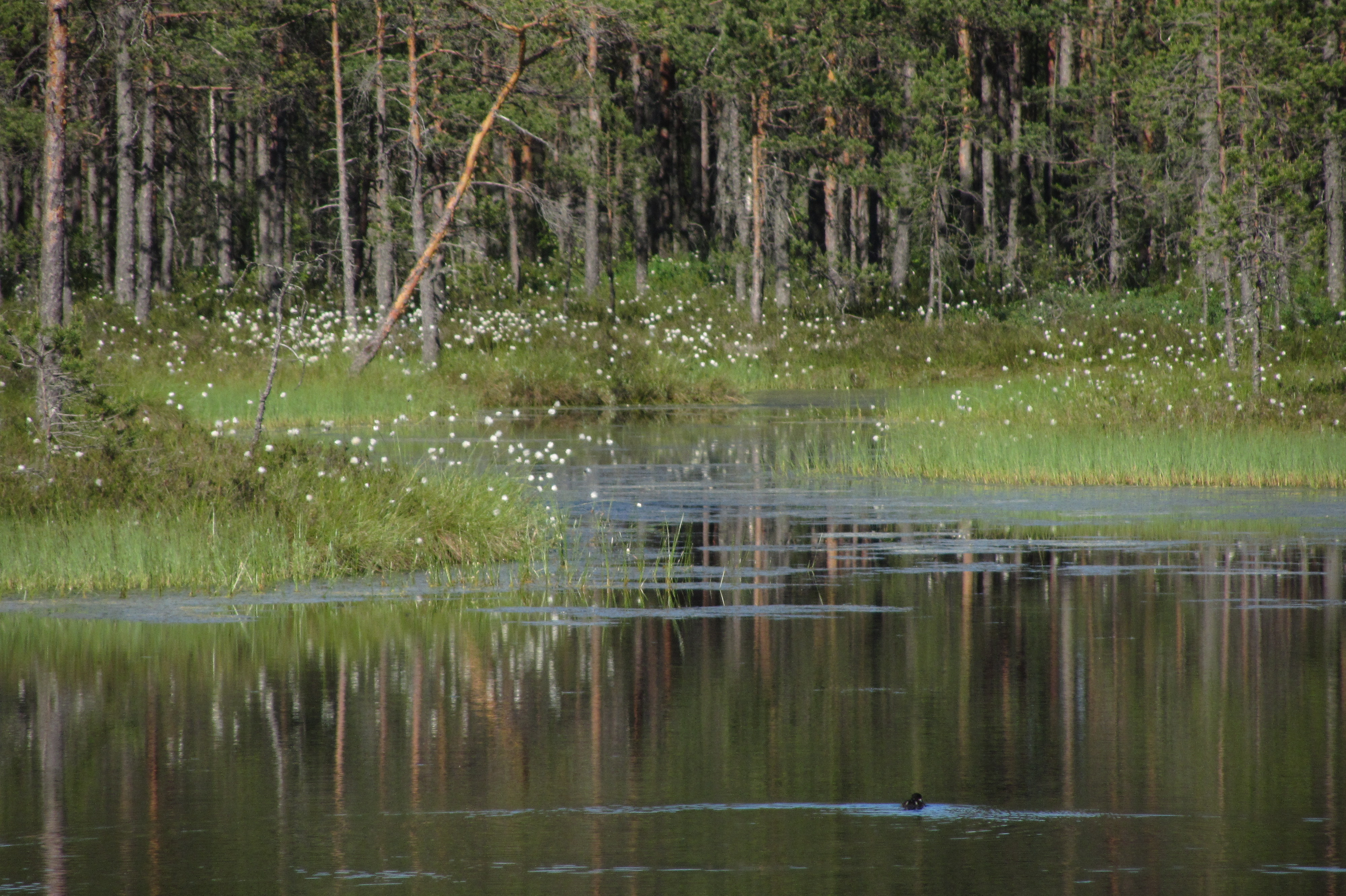 Aklais mire (raised bog), Latvia